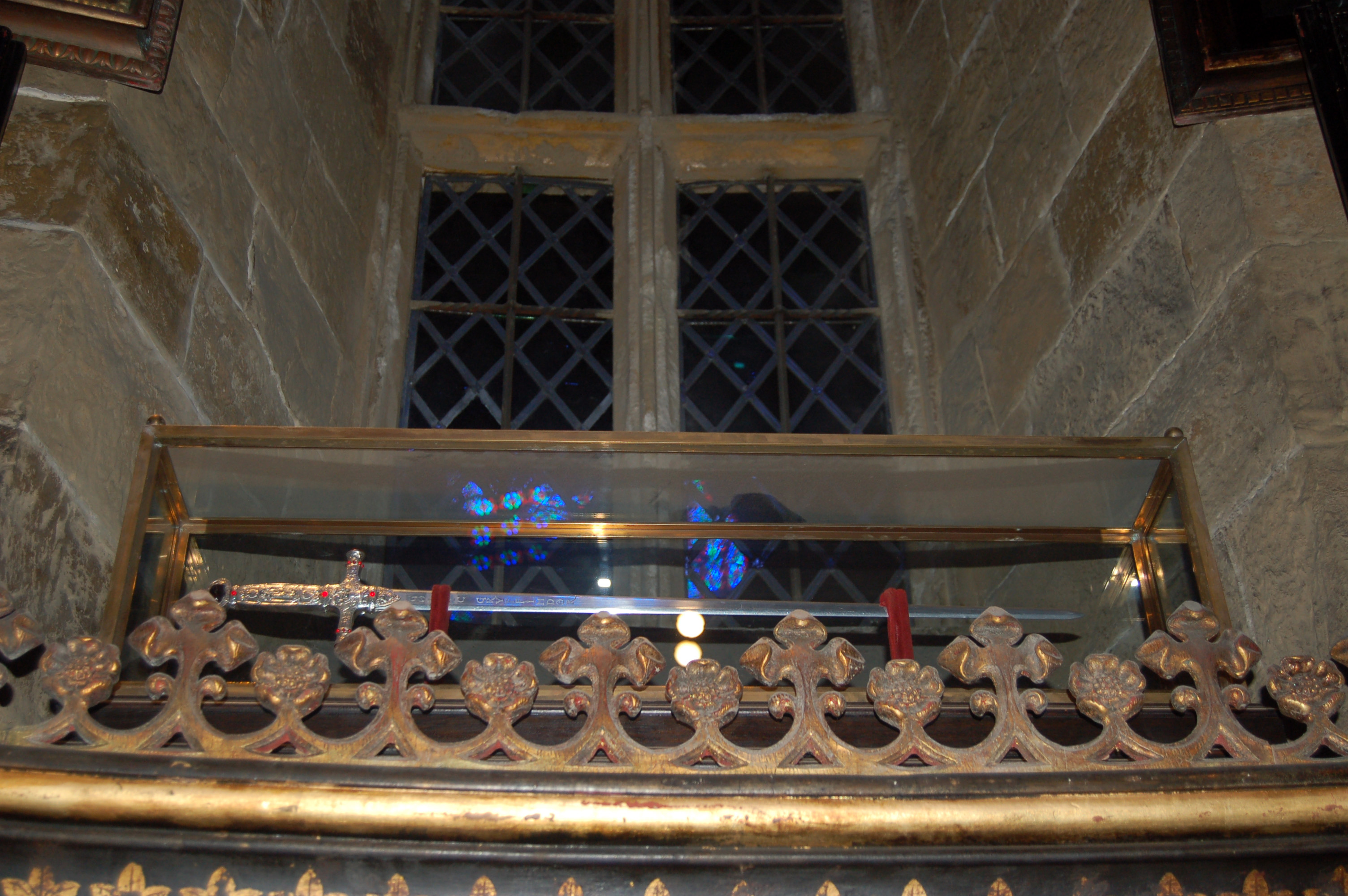 The Sword of Gryffindor